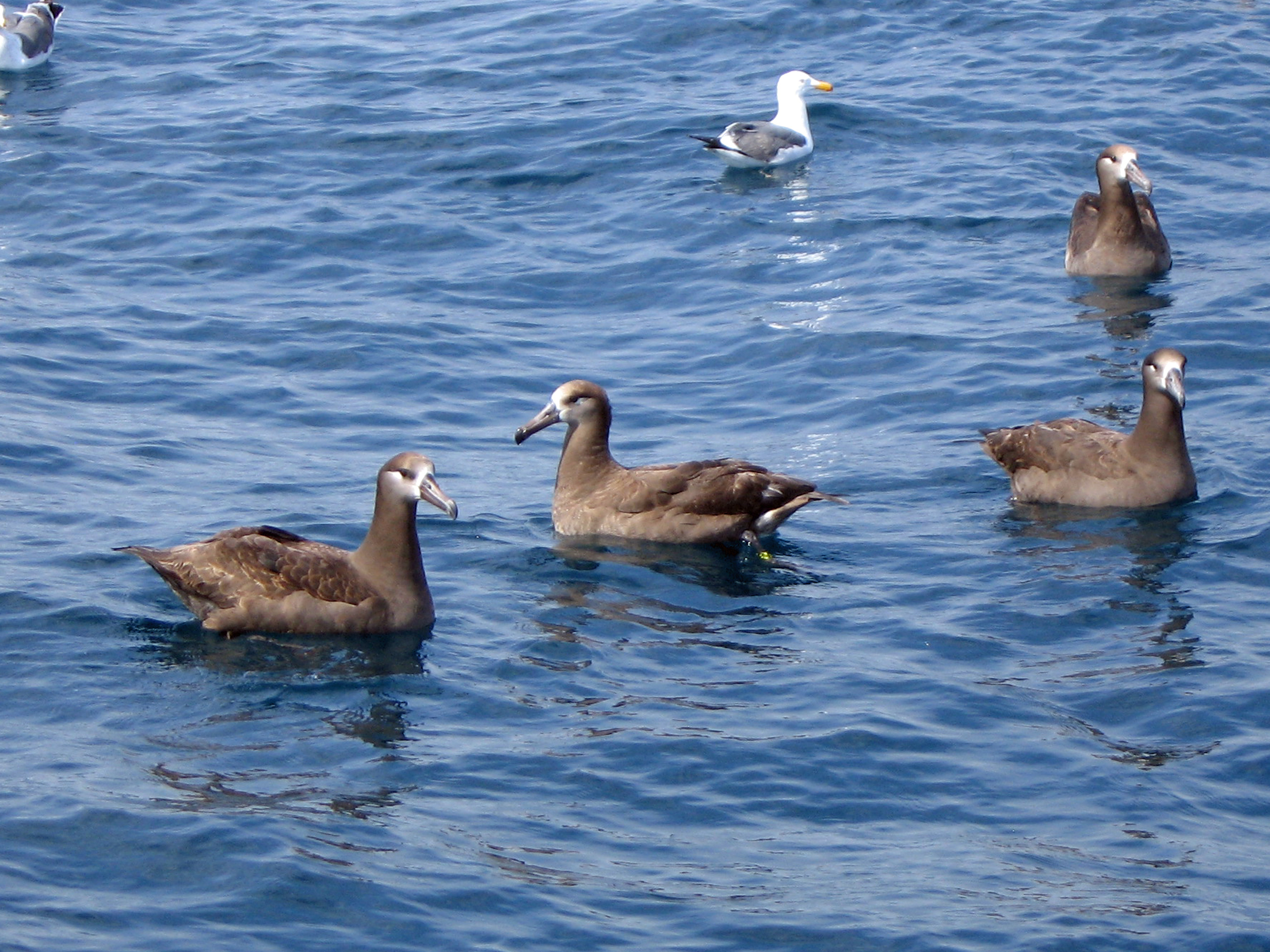 Black-footed Albatross group